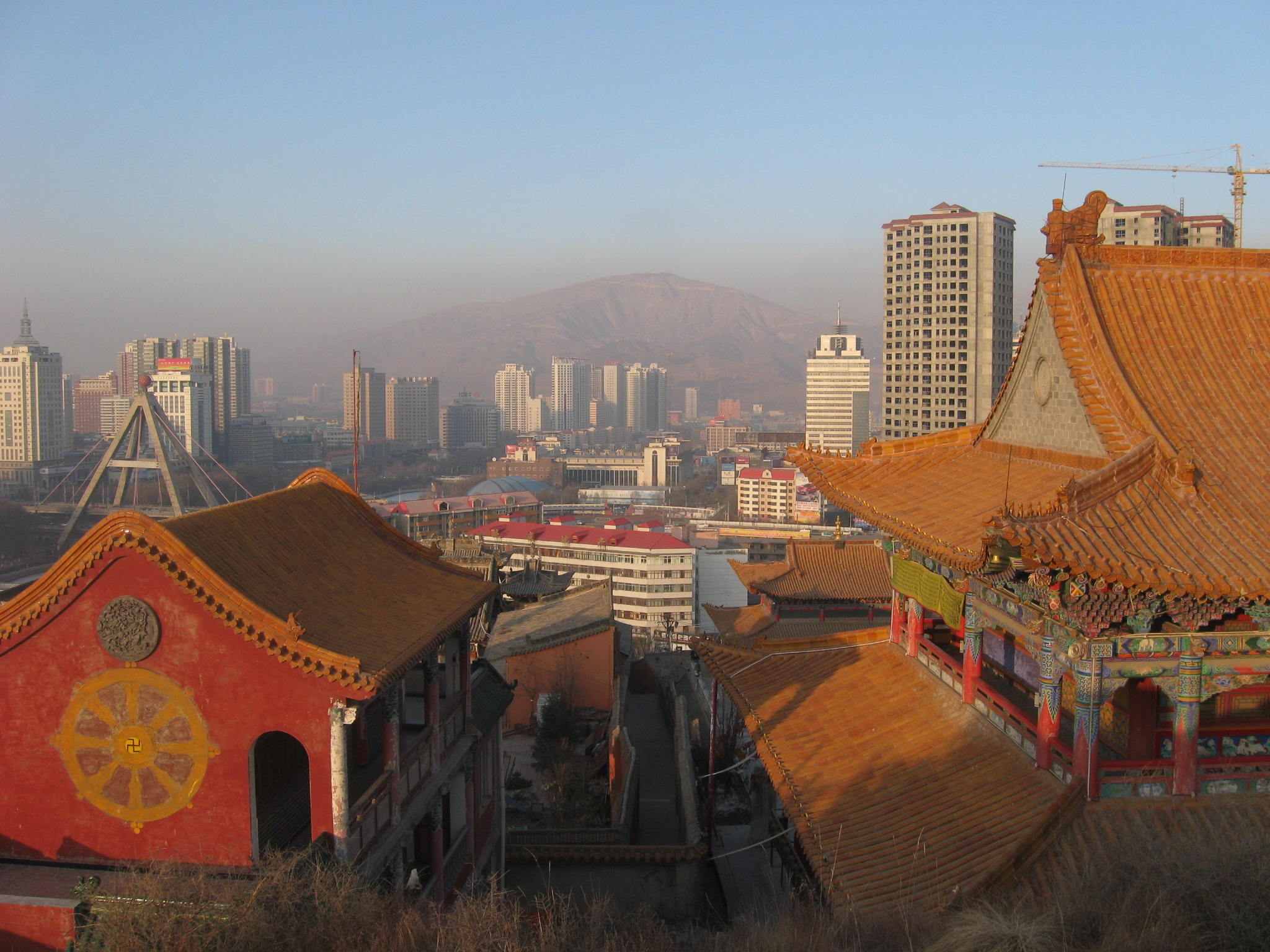 Beishan monastery in Xining